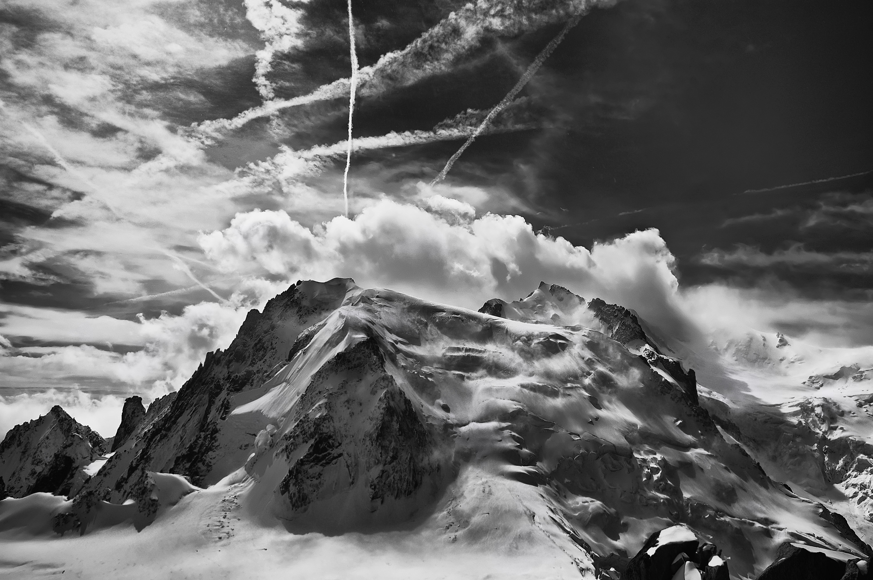 The Mont Blanc du Tacul seen from the Aiguille du Midi.